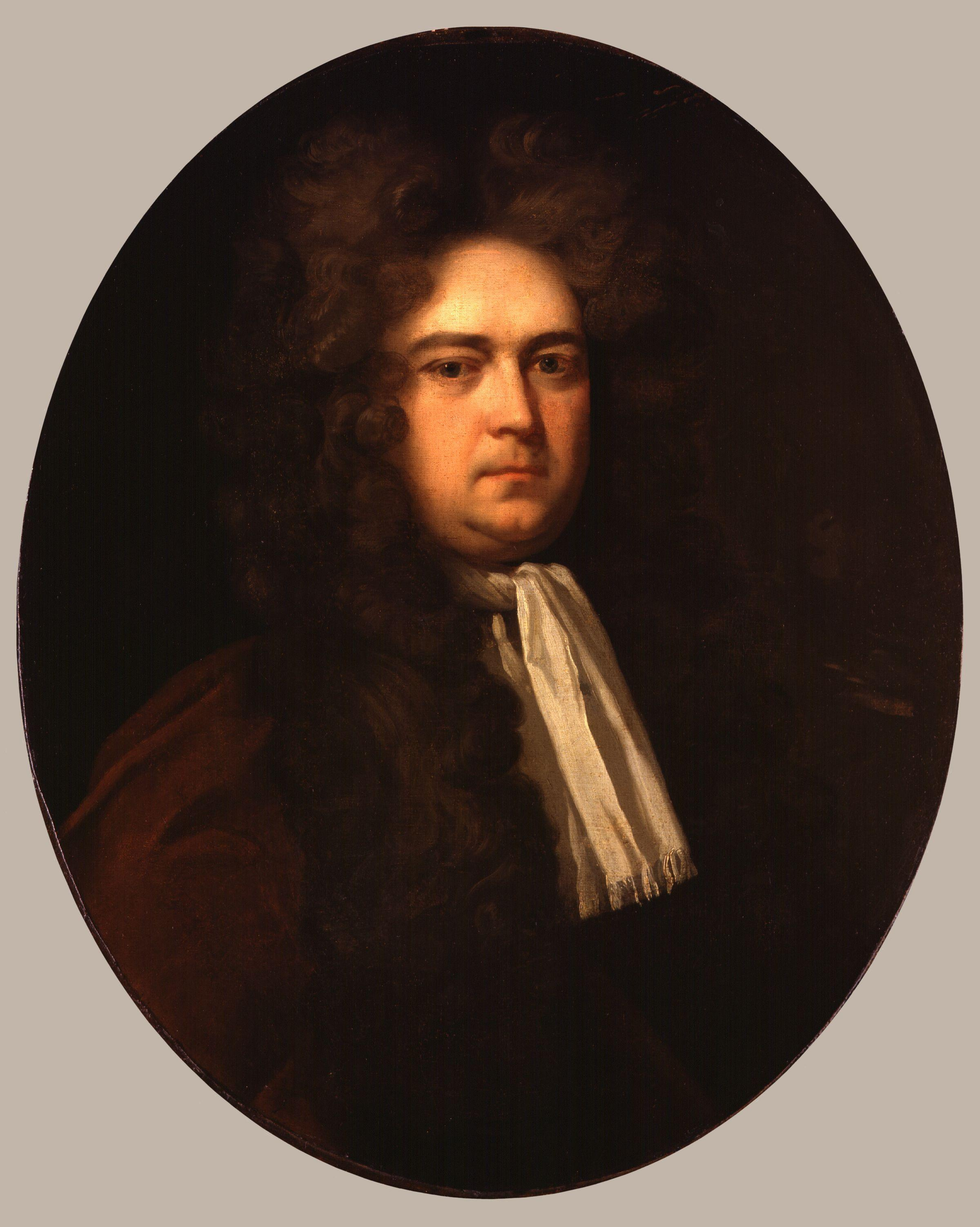 Sir George Rooke, by Michael Dahl (died 1743). All images in this batch have been confirmed as author died before 1939 according to the official death date listed by the NPG.